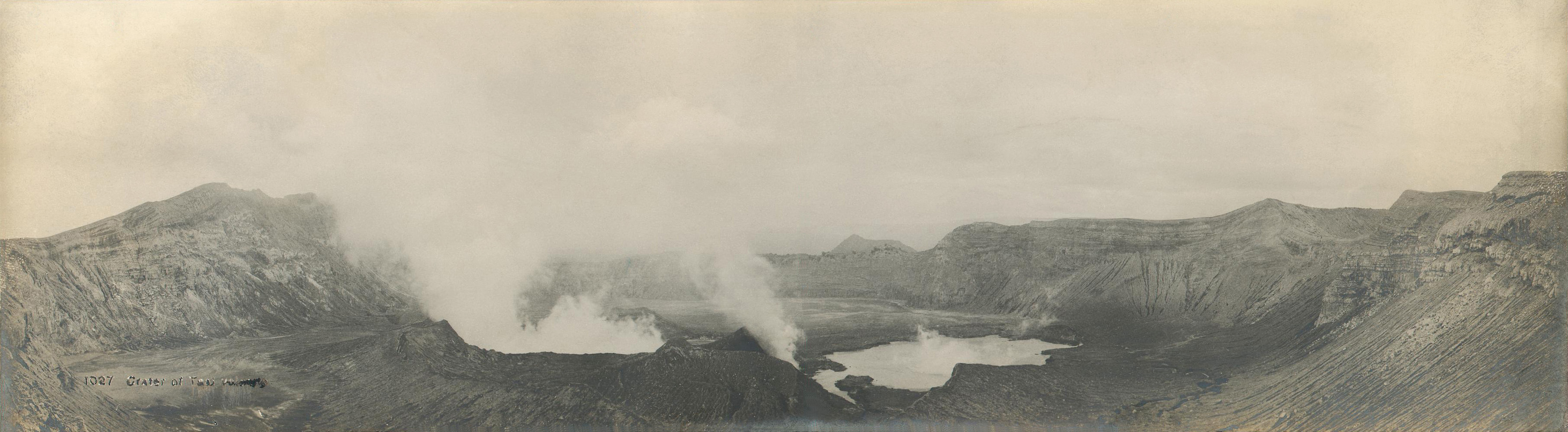 A bird's-eye view of the entire Taal Volcano crater with the central cone and one of the lakes, as seen from the east rim (before the eruption in 1911). The crater floor was obliterated after the 1911 eruption, destroying the yellow, green and red (occasional) lakes, leaving just one huge lake.